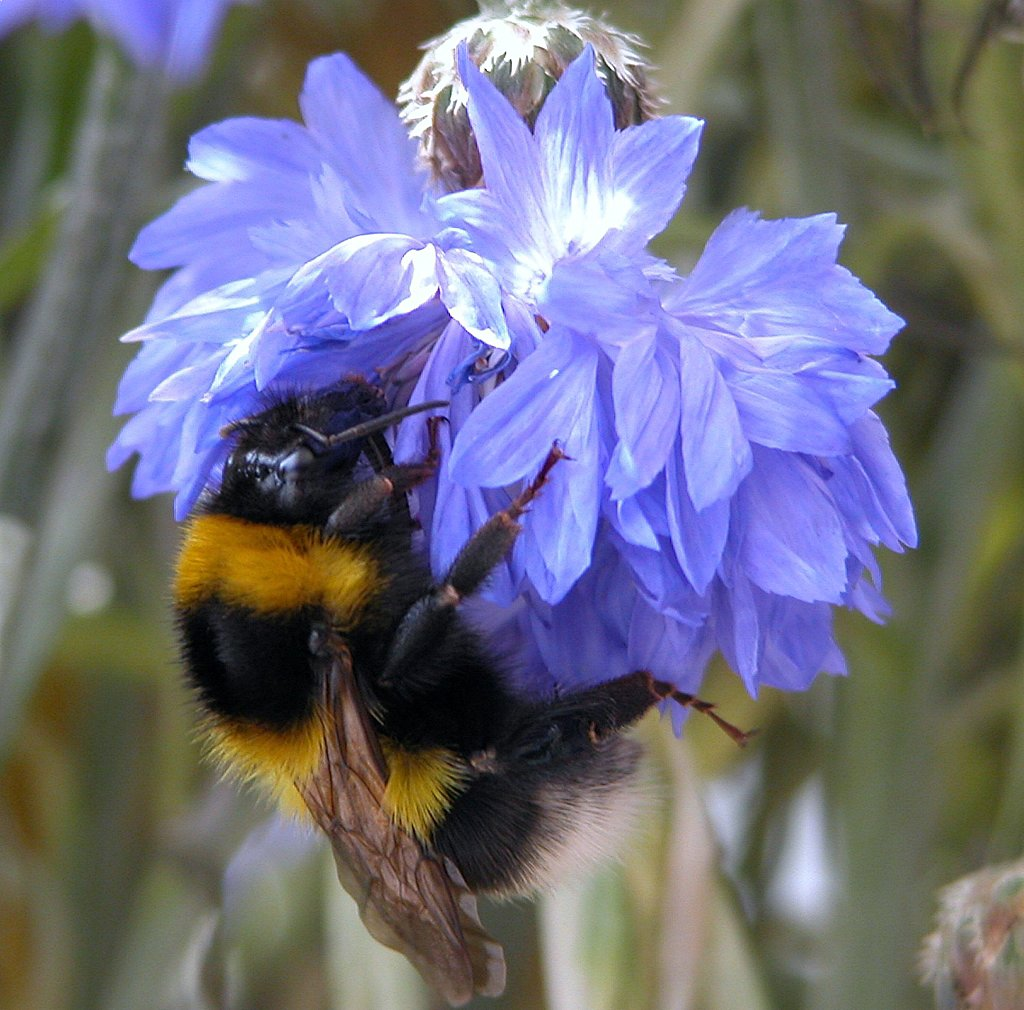 A bumblebee on a cornflower.